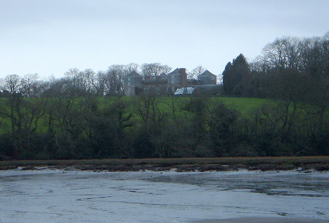 Ince Castle This is Ince Castle which was built in 1642 at the start of the Civil War and was captured in 1646. It consists of 4 three storey towers with walls 4 foot thick. By the 1850s it was used as a farm and was allowed to decay but it was restored in the early 20th century. It burnt down in 1986 (apparently by grandmother being a bit irresponsible with a candle) - but it has now been rebuilt. In 1649, John Killigrew inherited Ince Castle from an uncle. He married four wives and installed them separately into each of the four towers giving them a story that the fields were plagued with mice - which kept them inside. For some time, each of the four ladies lived happily in ignorance of the other three, until a thicko servant delivered a letter to the wrong wife, and all was revealed! John Killigrew was sentenced to sixteen years, four years for each count of bigamy. John pointed out to the judge that, as his first marriage was not bigamous, he should serve only twelve years! Good lad. It is now the home of Lord and Lady Boyd who probably wouldn't like to see me making footprints in their ever so posh mud.